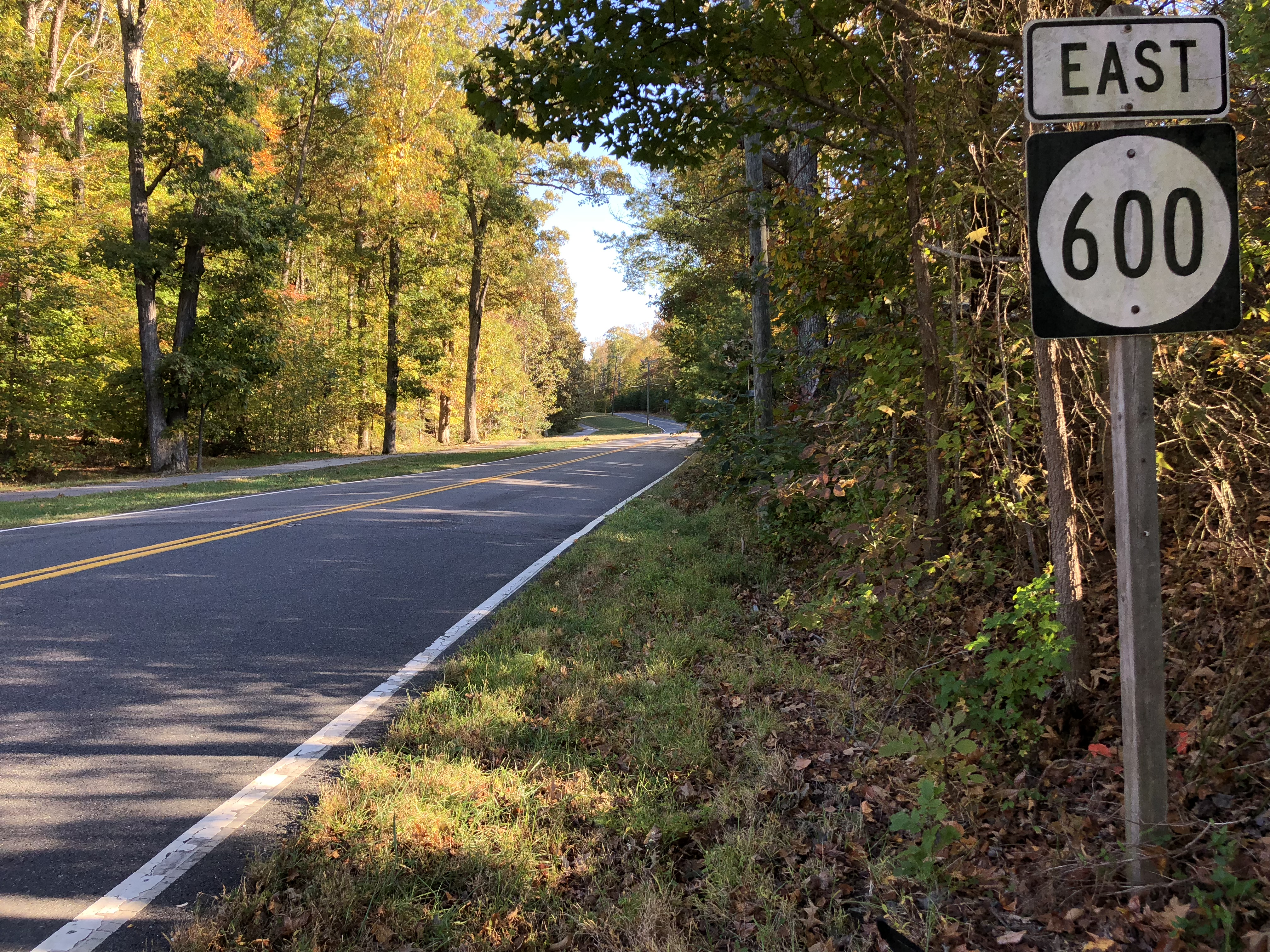 View east along Virginia State Route 600 (Gunston Road) at the east end of Virginia State Route 242 in Mason Neck, Fairfax County, Virginia